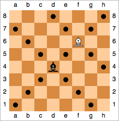 The so called dark-square bishops can only move on the dark squares of a chessboard.